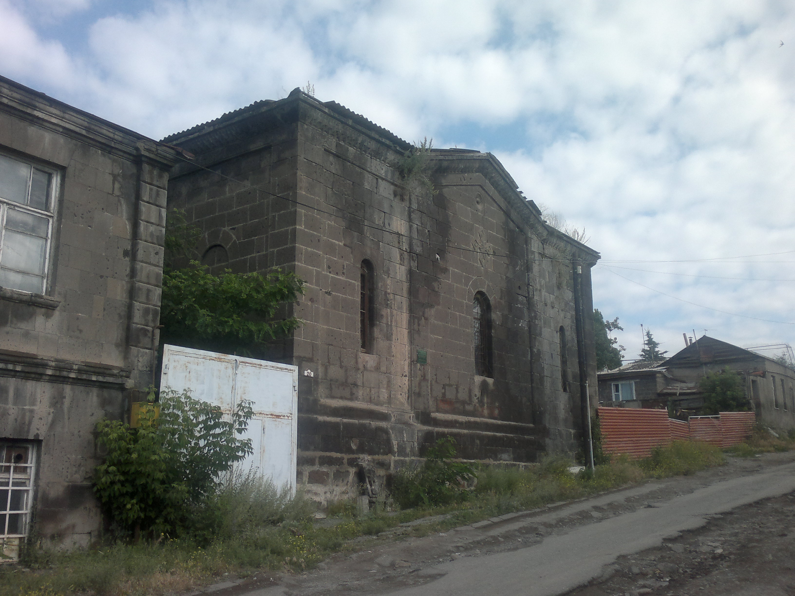 Surb Grigor Lusavorich church in Gyumri